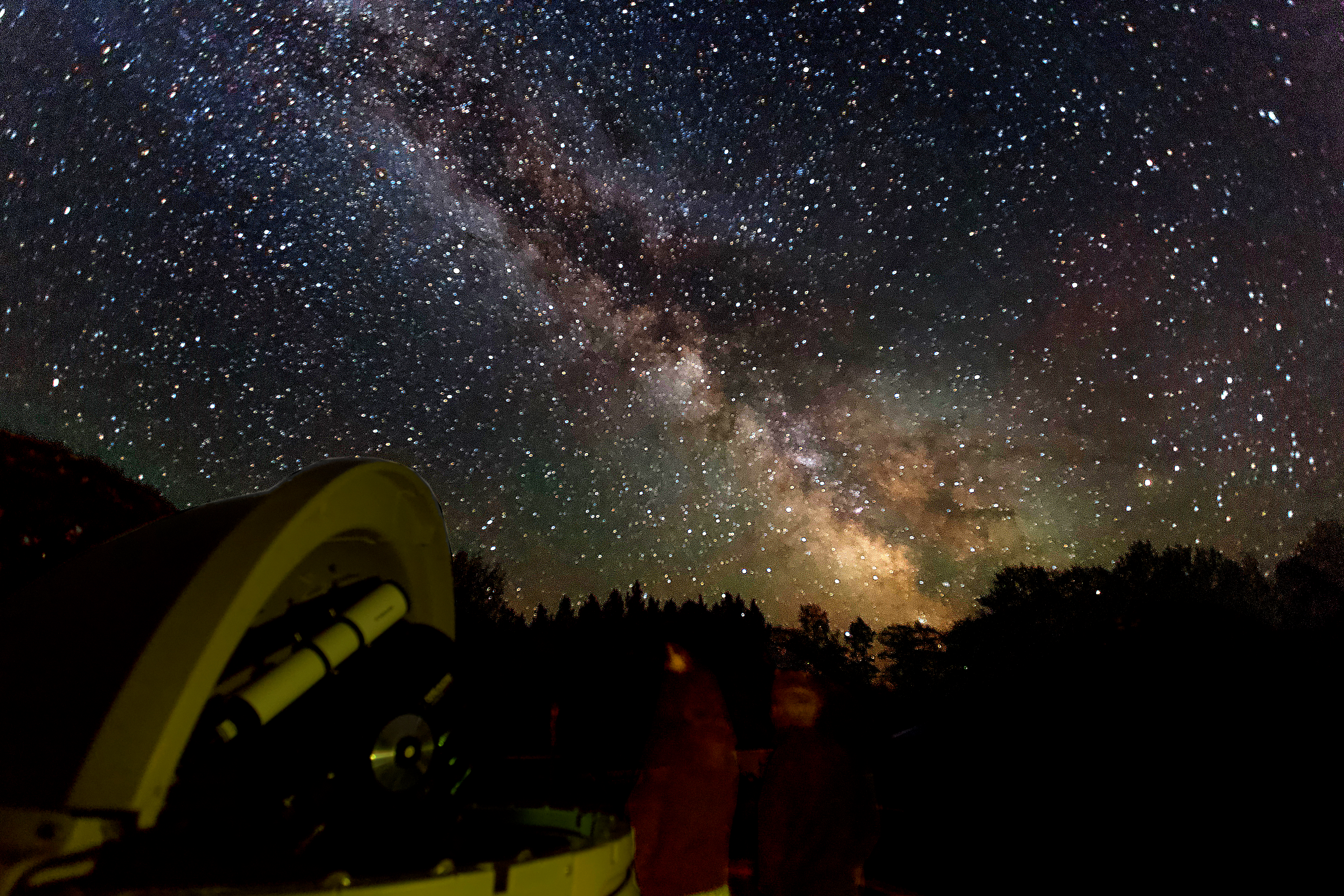 Image of astronomer pointing out the stars of the Milky Way at the Killarney Provincial Park Observatory